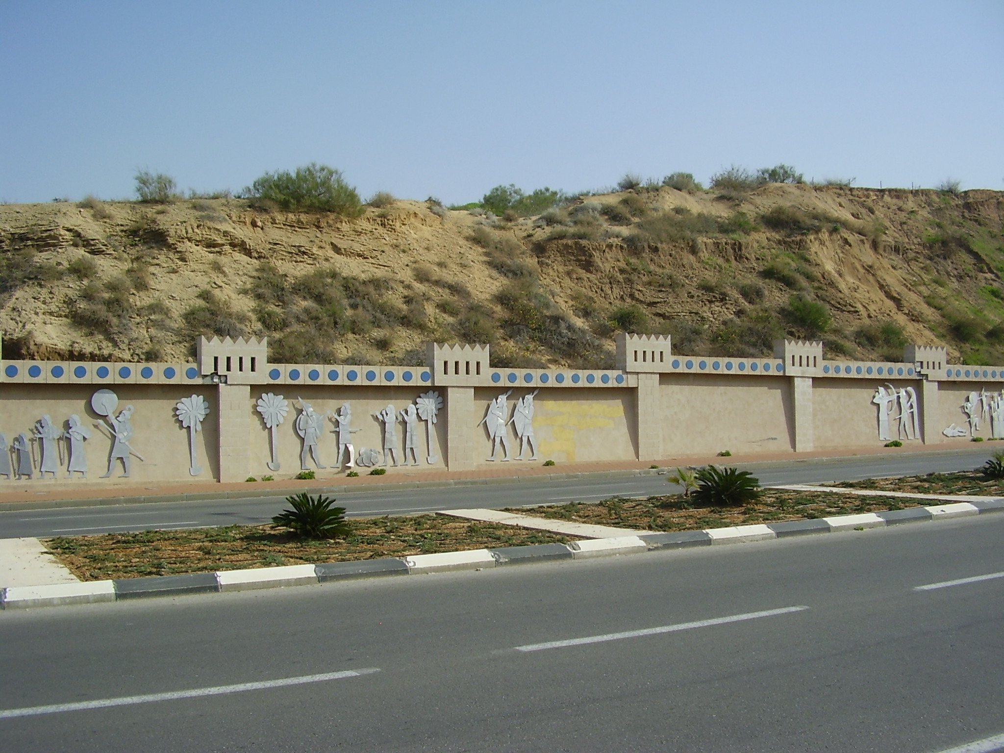 assyrian fortress in rishon lezion